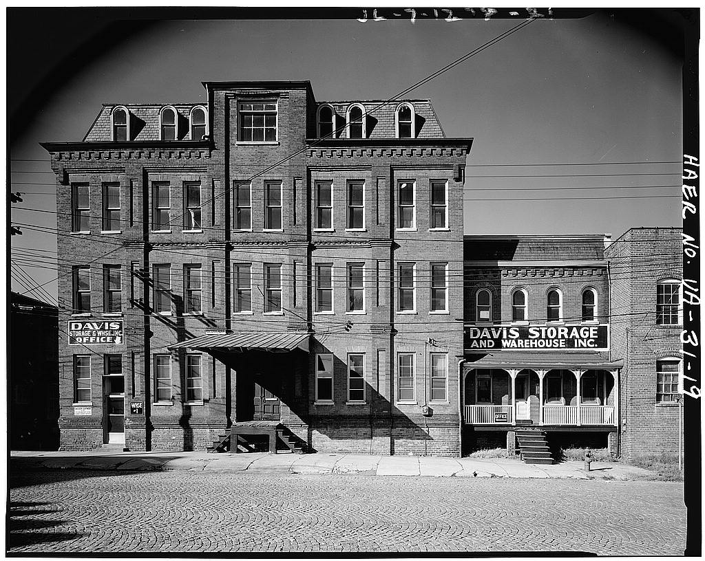 View looking northeast, elevation of the Pemberton & Penn Tobacco Co. warehouse and office building, which was built in Danville, Virginia, from 1885–1890. Historic American Buildings Survey, The Library of Congress, Washington, D.C.